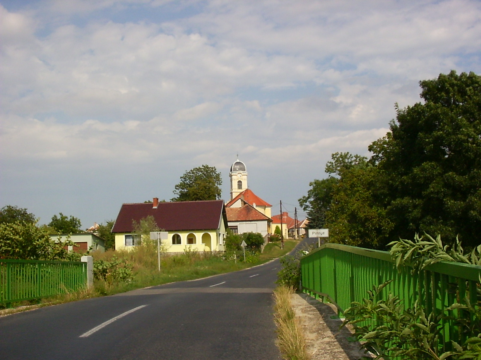 Pinnye